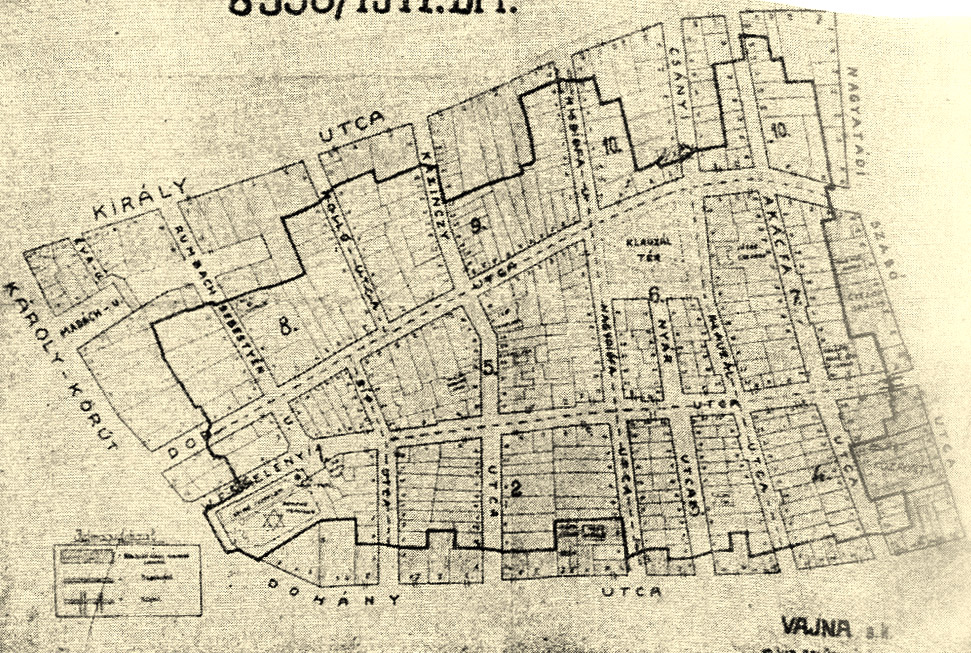 Contour Map of the Ghetto of Budapest (1944)